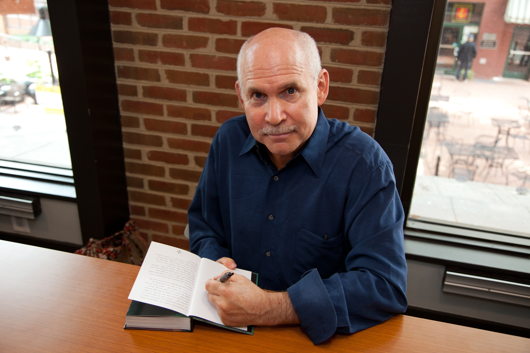 Steve McCurry signs my book.